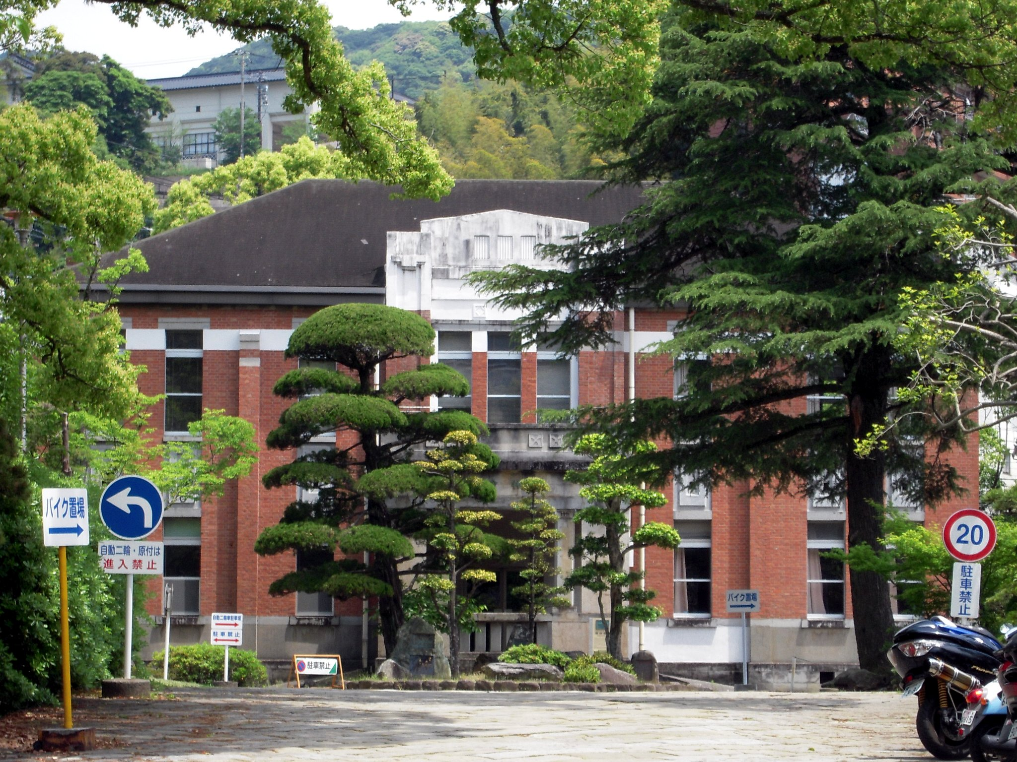 Keirin Hall of the Faculty of Economics, Nagasak University. Originally built as the research institute of Nagasaki Higher Commercial School in 1919. Repaired in 1972 by the alumni association Keirin-kai, thus renamed Keirin Hall. Located in Katafuchi, Nagasaki City, Nagasaki Pref., Japan. Photograph taken by the original uploader on 7 May 2009.